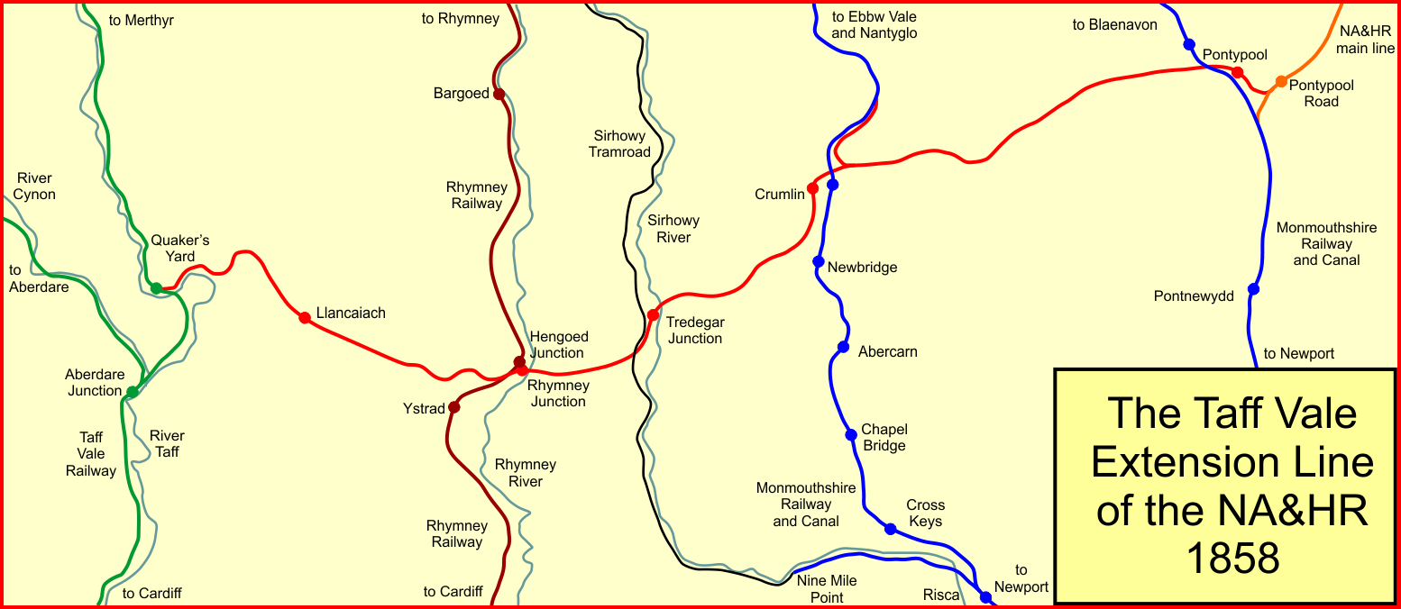 System map of the Taff Vale Extension Railway, Wales